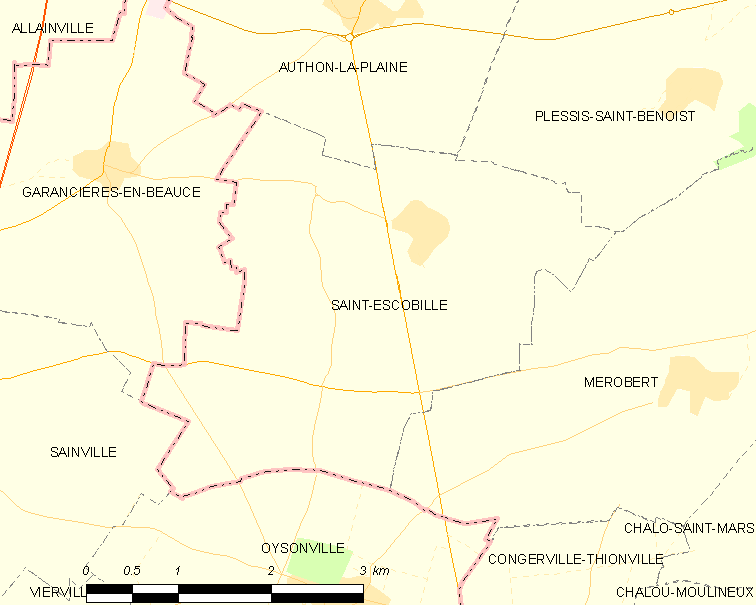 Map of French municipality Saint-Escobille